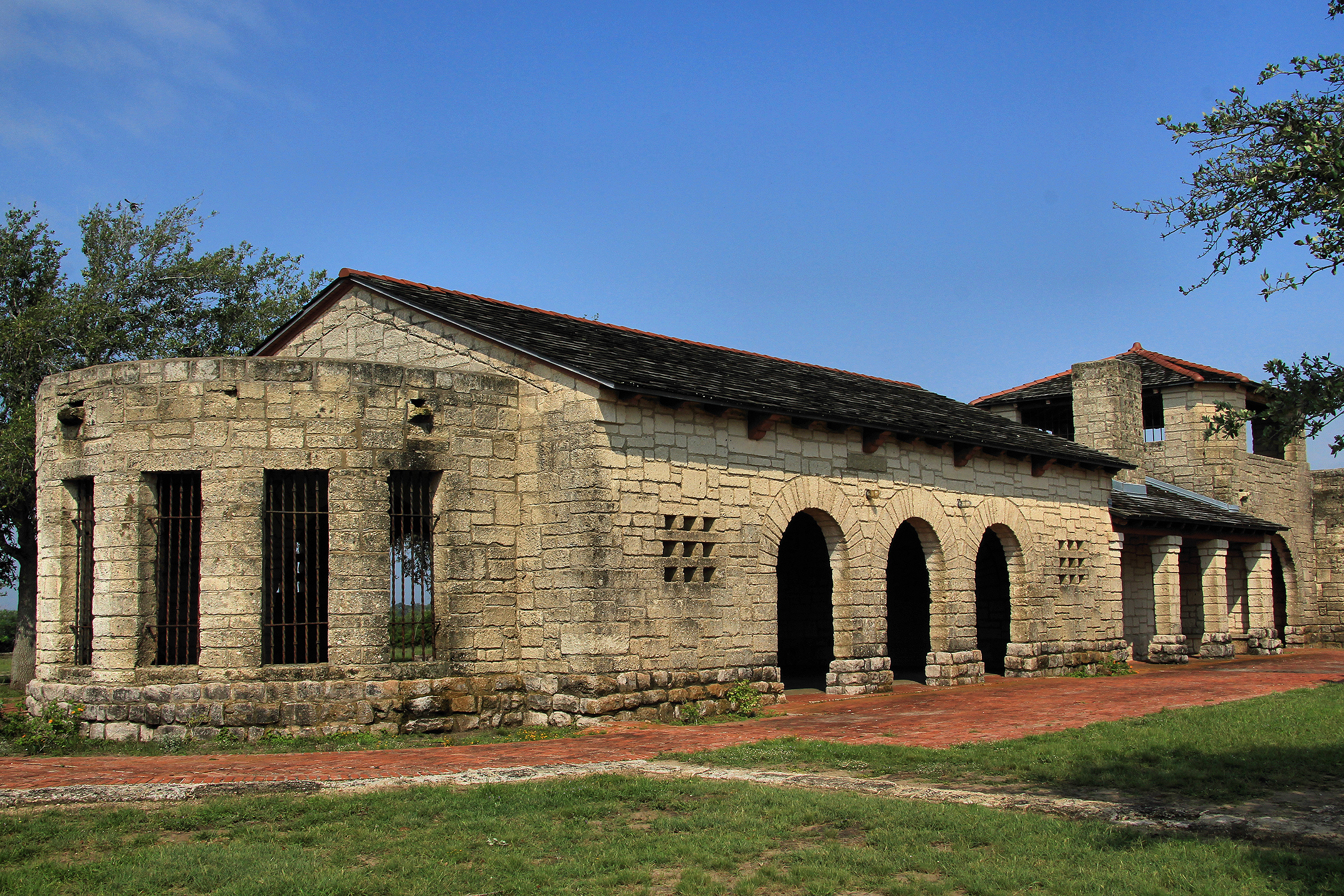 The refectory at Lake Corpus Christi State Park. The structure was built by the Civilian Conservation Corps circa 1935.